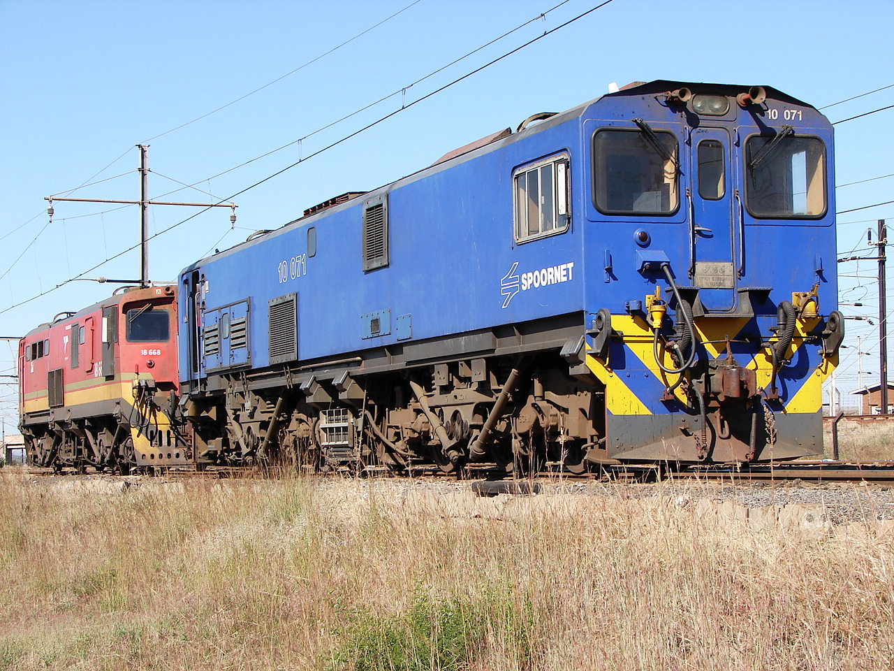 SAR Class 10E1 Series 1 10-071Builder's Number: GEC 5679Location: Pyramid South, Pretoria, Gauteng